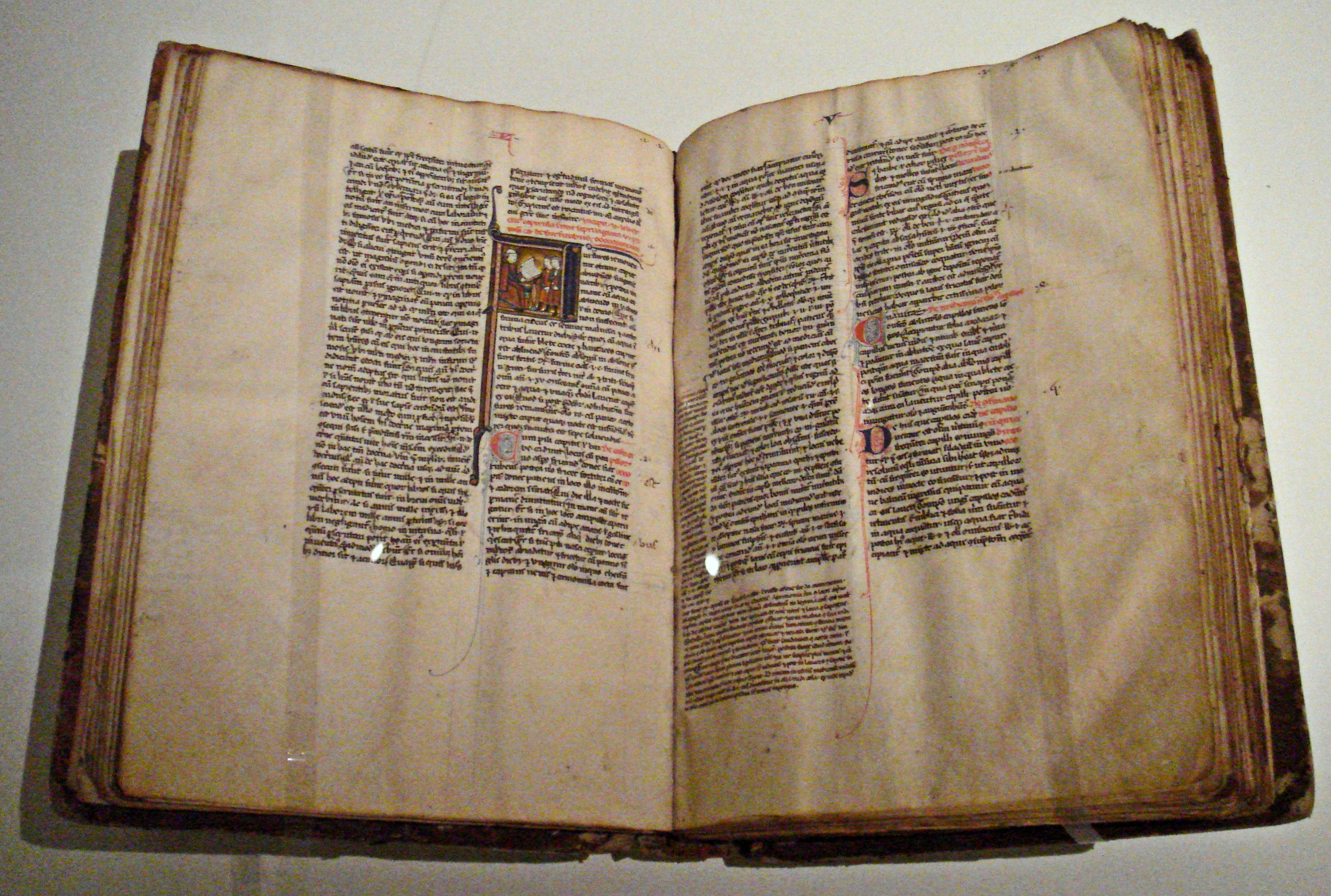 Al_Razi_Receuil_de_traite_de_medecine_translated_by_Gerard_de_Cremone_Second_half_of_13th_century